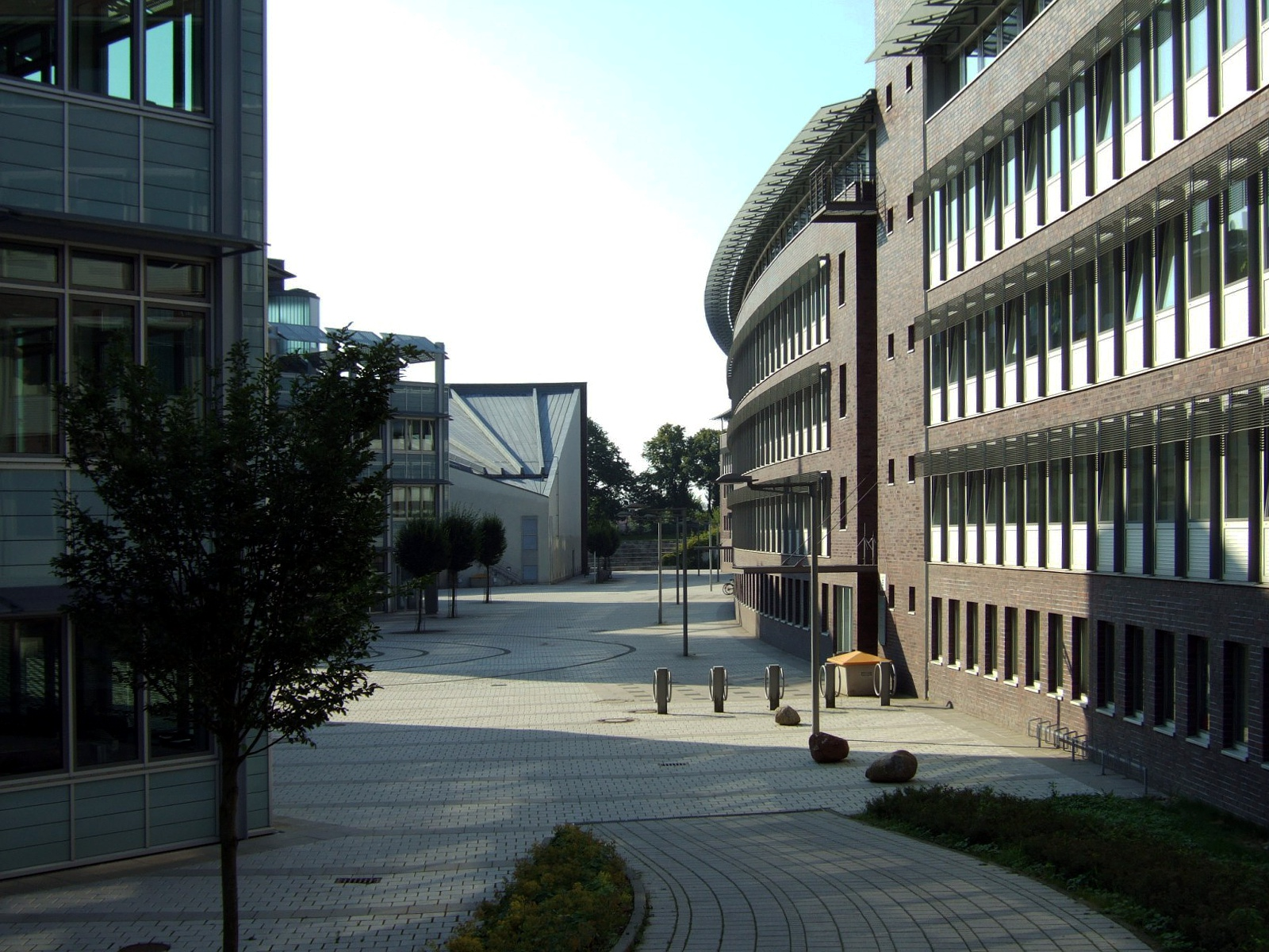 Campus of the Technische Universität Hamburg-Harburg